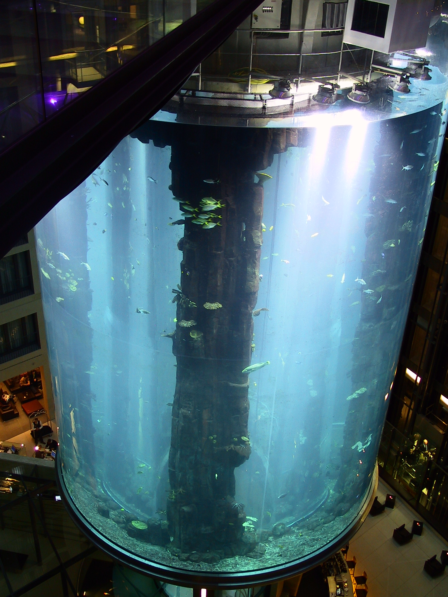 Sea Life Aqua Dome in Berlin - including elevator in the tube - Picture taken from above